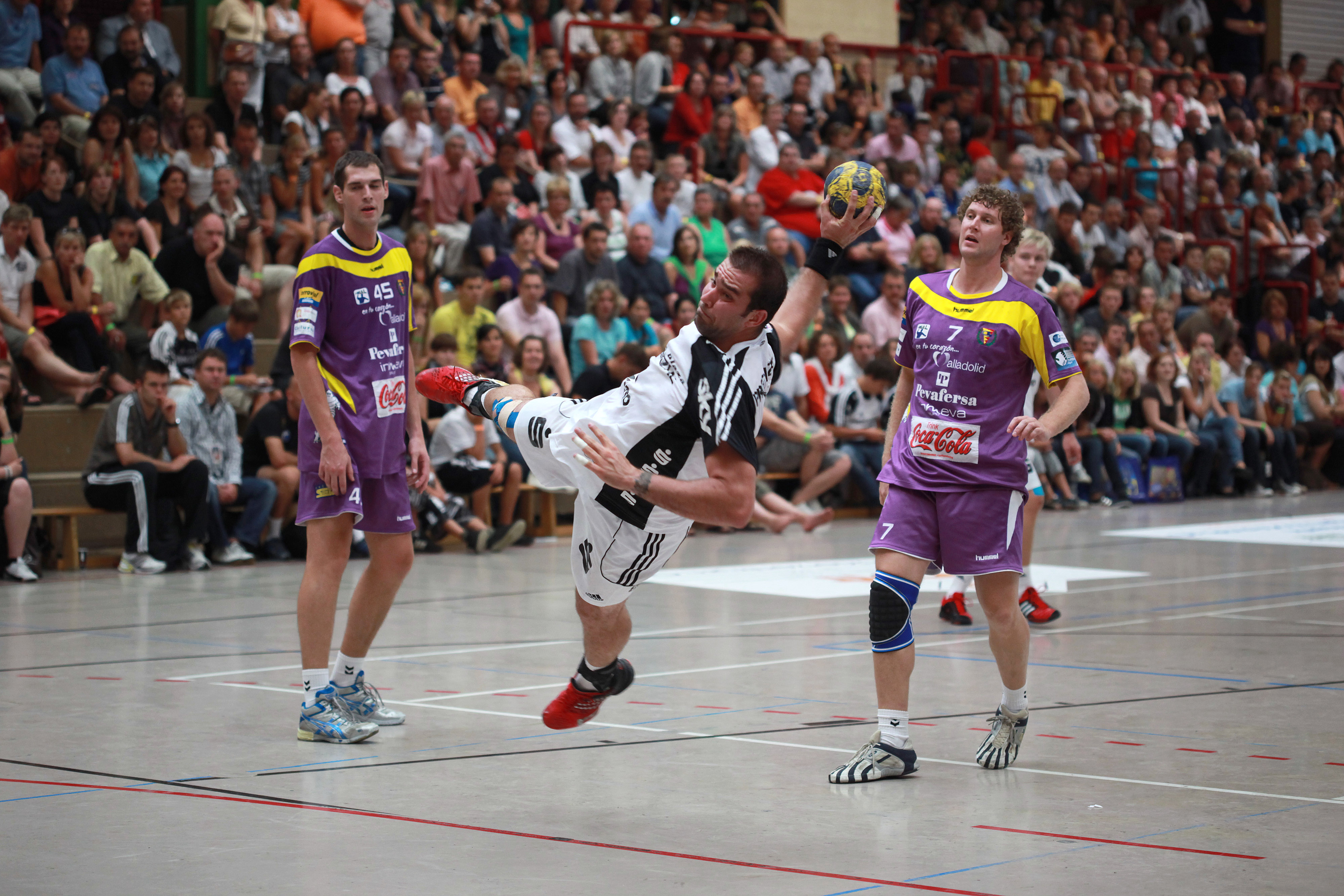 Igor Anic, French handball player from THW Kiel, in Ehingen (Germany), during Schlecker Cup 2009.